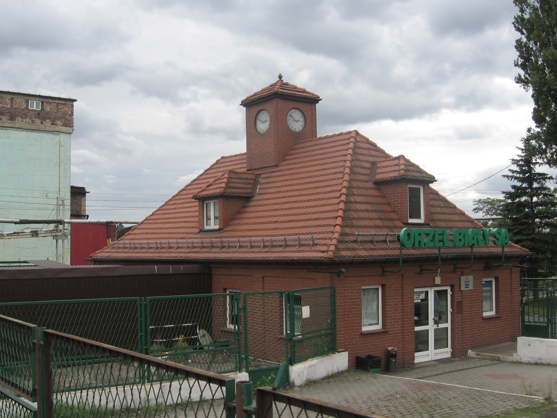 The building (control room, pol. markownia) of former zinc and lead ore mine Marchlewski (ger. Deutsch-Bleischarleygrube, since 1961 part of ZGH Orzeł Biały) in Bytom, Siemianowicka street, Poland, 2017.